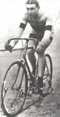 Romain Bellenger (Paris, January 18, 1894 — Cahors, November 25, 1981) was a French road racing cyclist who came third in the 1923 Tour de France and eighth in the 1924 Tour de France and won three stages.